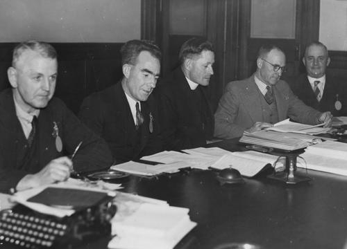 Meeting of the Annual conference of the Protestant Labour Party at the Builders Exchange